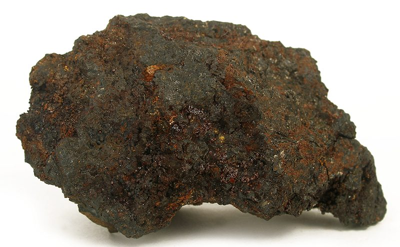 Iron Locality: Disko Island, Kitaa (West Greenland) Province, Greenland Size: miniature, 4.9 x 2.9 x 1.5 cm Native Iron Anextremely rare mass of terrestrial native iron in rock; this is from remote Disko Island. It may not be pretty, but this is an important specimen for the species. Native iron is extremely rare in igneous rocks, even though it forms the majority of the earths core. This is from the Type Locality, remote Disko Island, Greenland, and is richly speckled with bright, metallic native iron in basalt matrix. This is old, rare, and seldom seen. Most native iron is extra-terrestrial. This one, however, is from some of the oldest crustal elements humans will ever access, and is a rare find to make it into the hands of specimen collections. The old David New label is overwritten by White's notes that the piece is very rich (even the photos here show you the reddish blebs visible in the matrix). Ex. John White Collection.